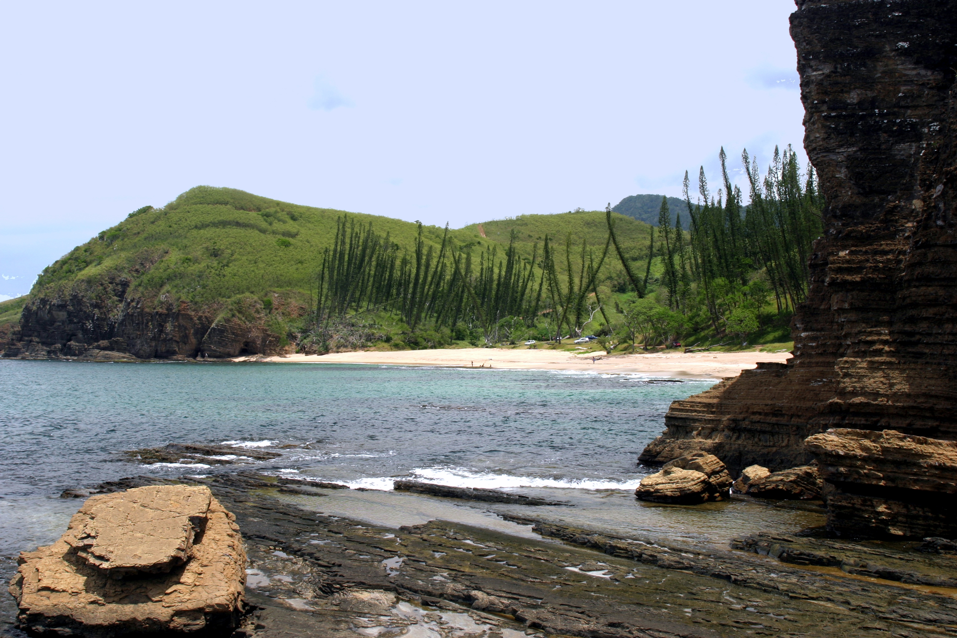 Coral Reef Araucaria Araucaria columnaris at Turtle Bay, near Bourail in New-Caledonia.